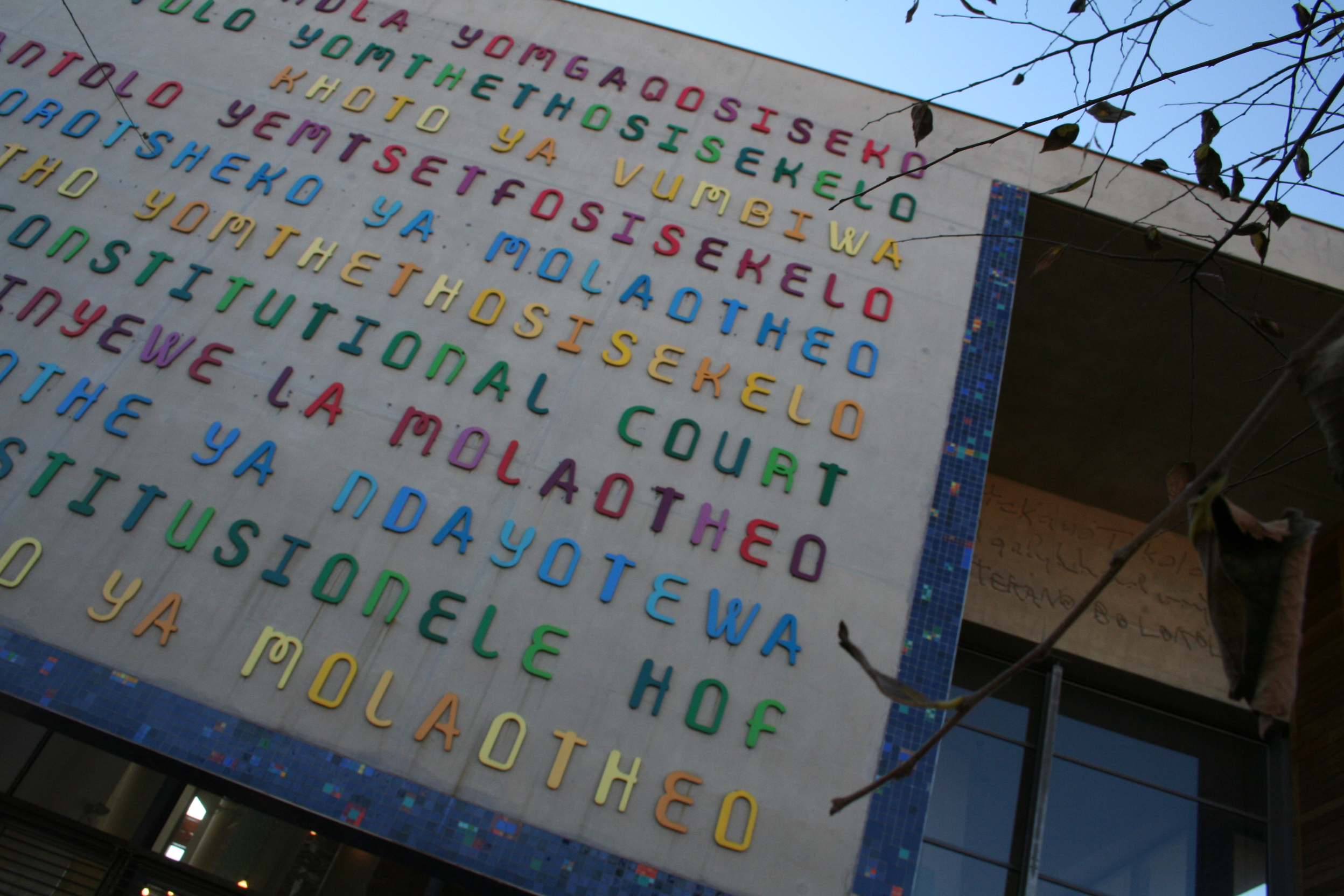 The entrance of the Constitutional Court of South Africa at Constitution Hill, Braamfontein, Johannesburg.